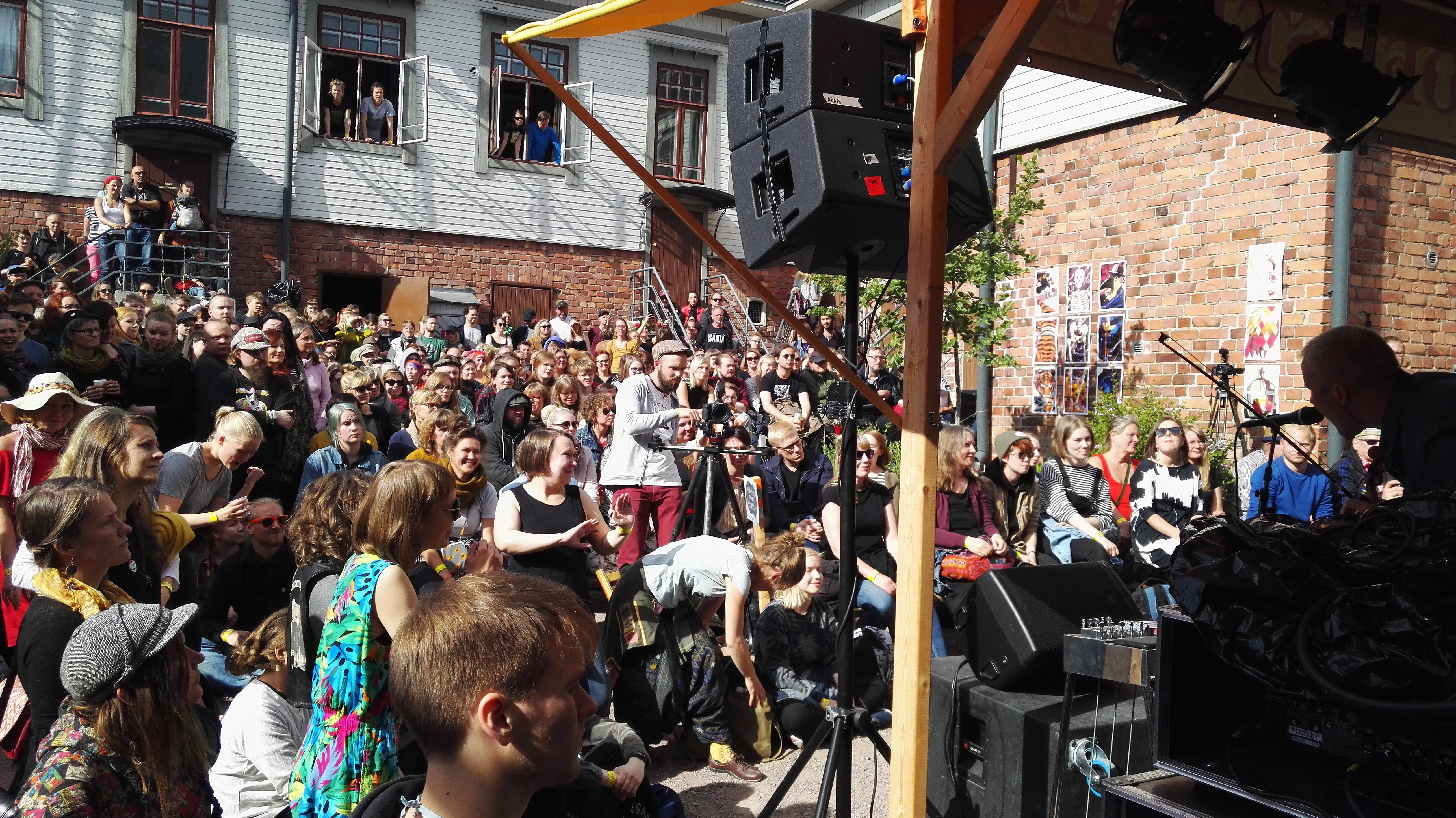 Annikki Poetry Festival on 9 June 2018 at Annikki Wooden Quarter in Tampere, Finland.